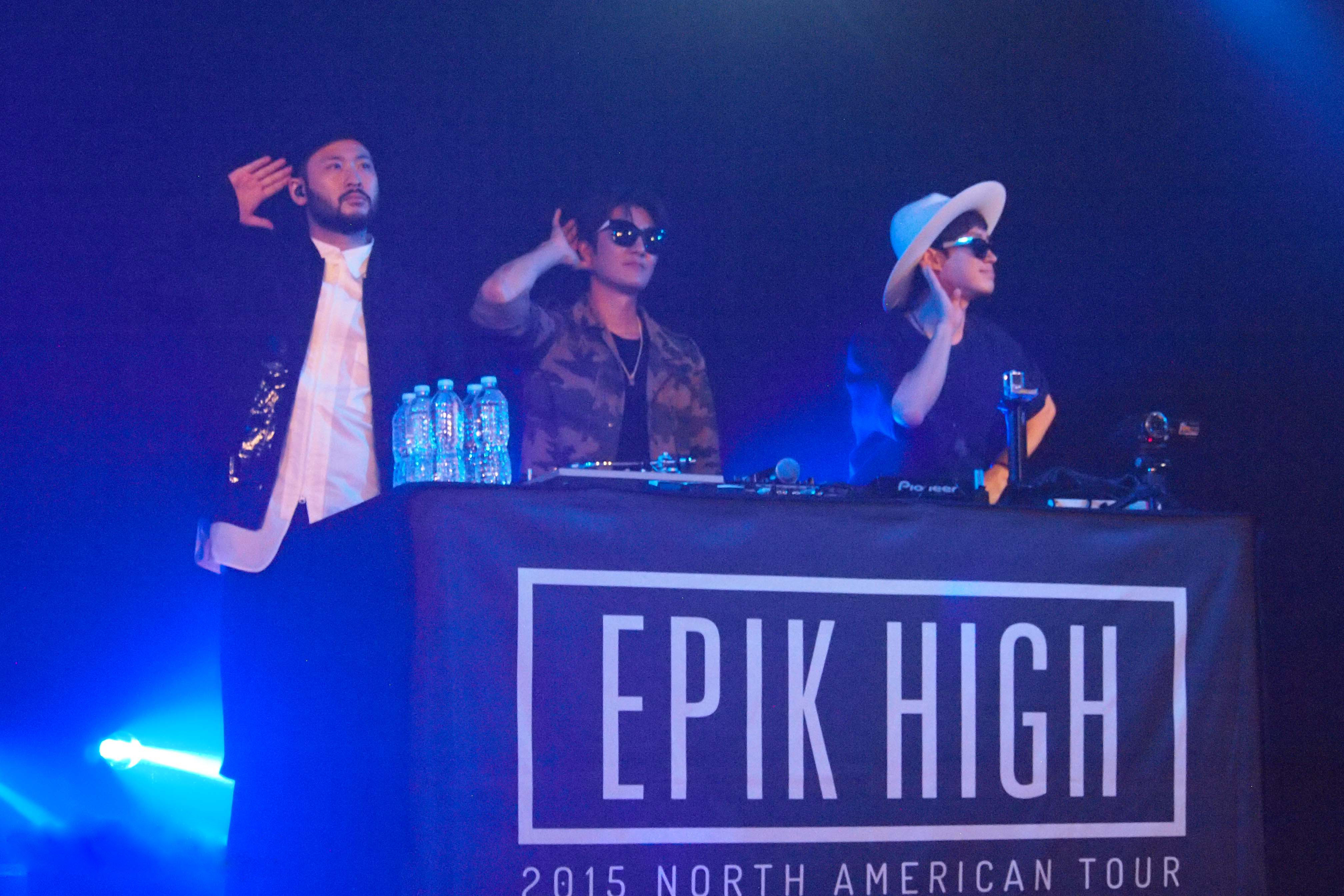 OLYMPUS DIGITAL CAMERA Epik High, Master Wu & DJ Soulscape at Best Buy Theater, New York City - 6/12/2015